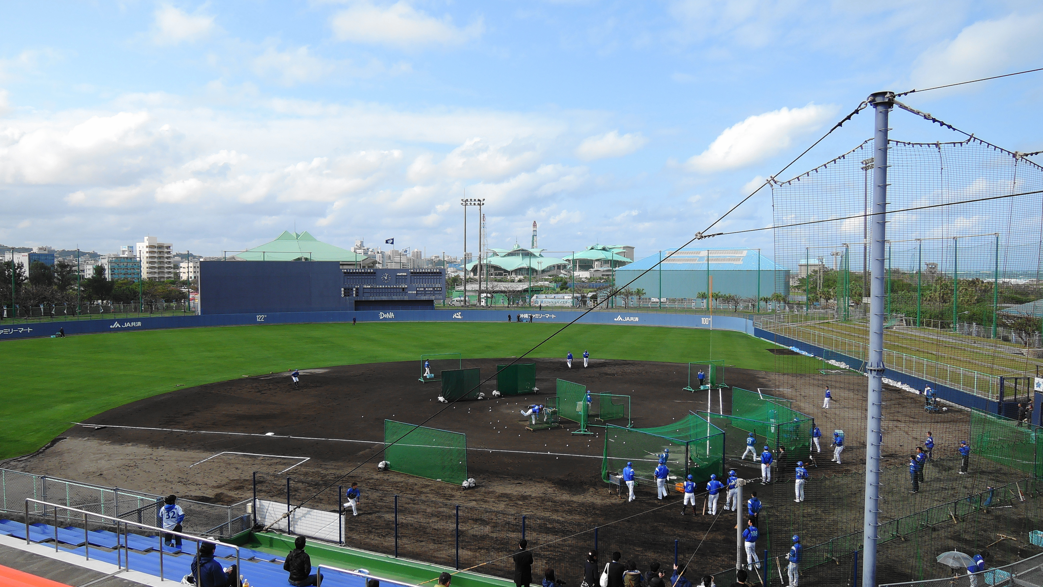 Ginowan municipal park Baseball stadium,Okinawa prefecture,Japan